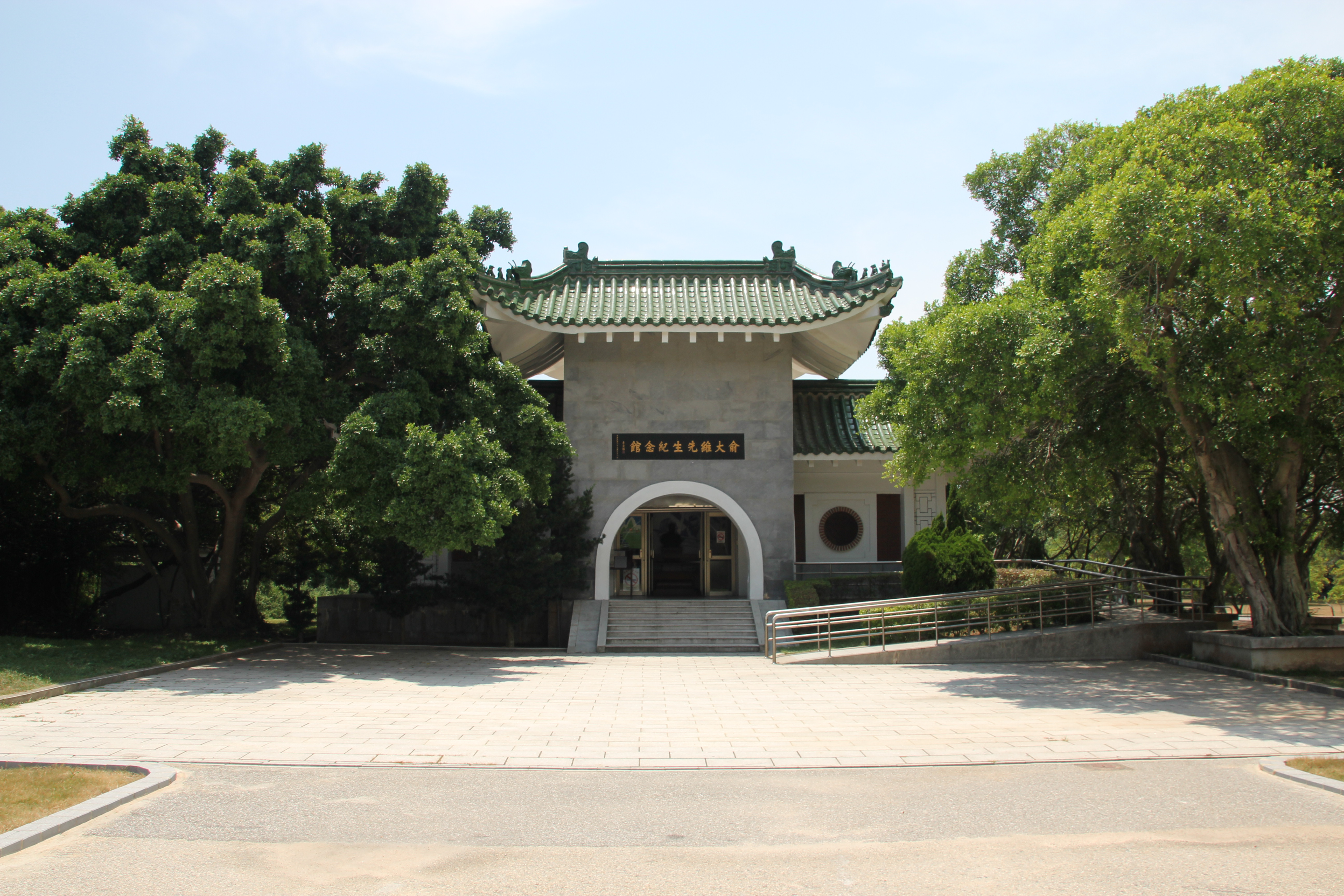 Yu Da Wei Xian Sheng Memorial Museum